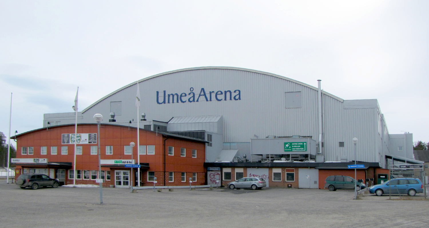 Umeå Arena in Umeå, Sweden